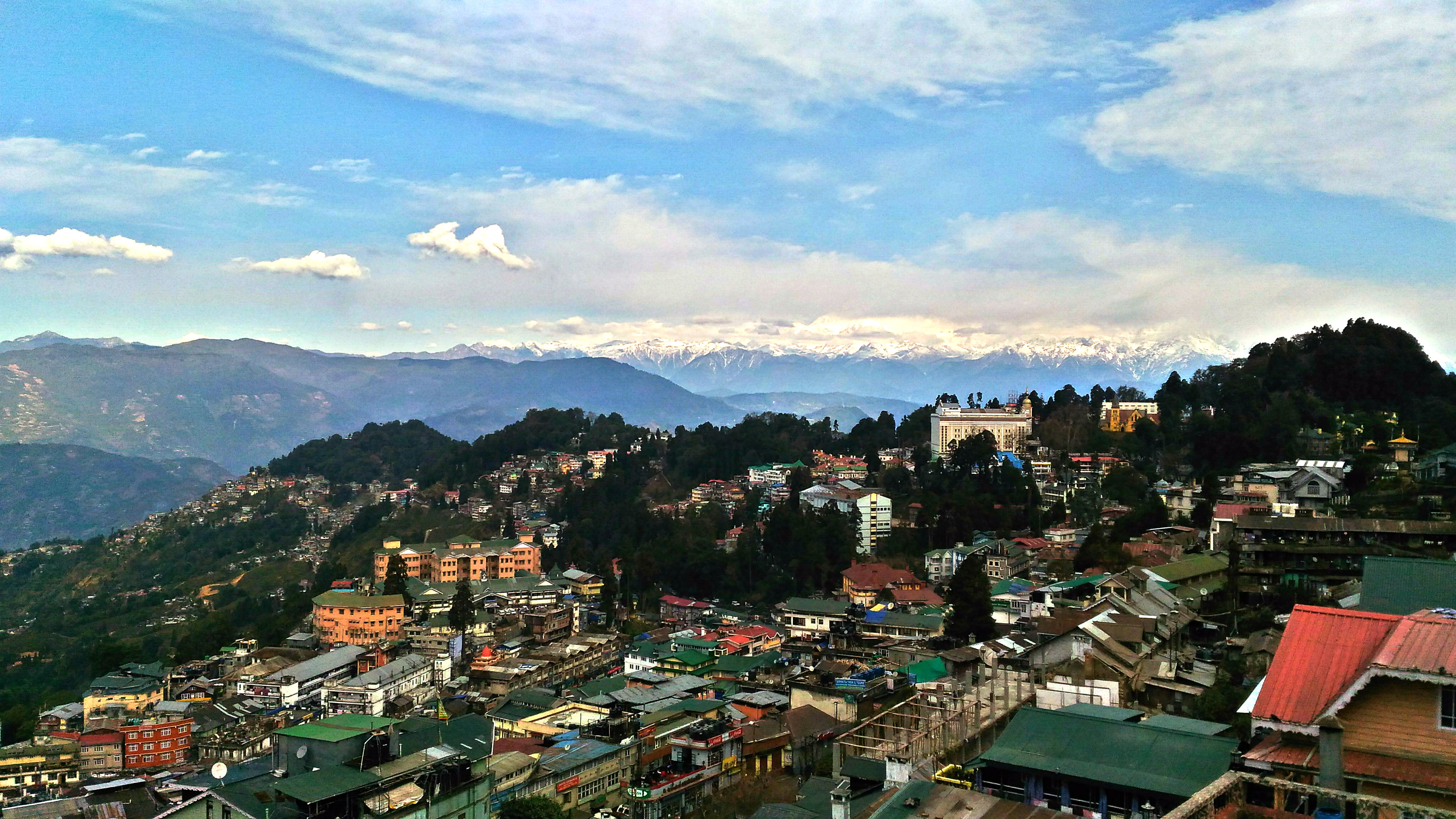 Darjeeling is a town and a municipality in the Indian state of West Bengal. It is located in the Lesser Himalayas at an elevation of 6,700 ft. It is noted for its tea industry, the spectacular views of Kangchenjunga, the world's third-highest mountain, and the Darjeeling Himalayan Railway, a UNESCO World Heritage Site.